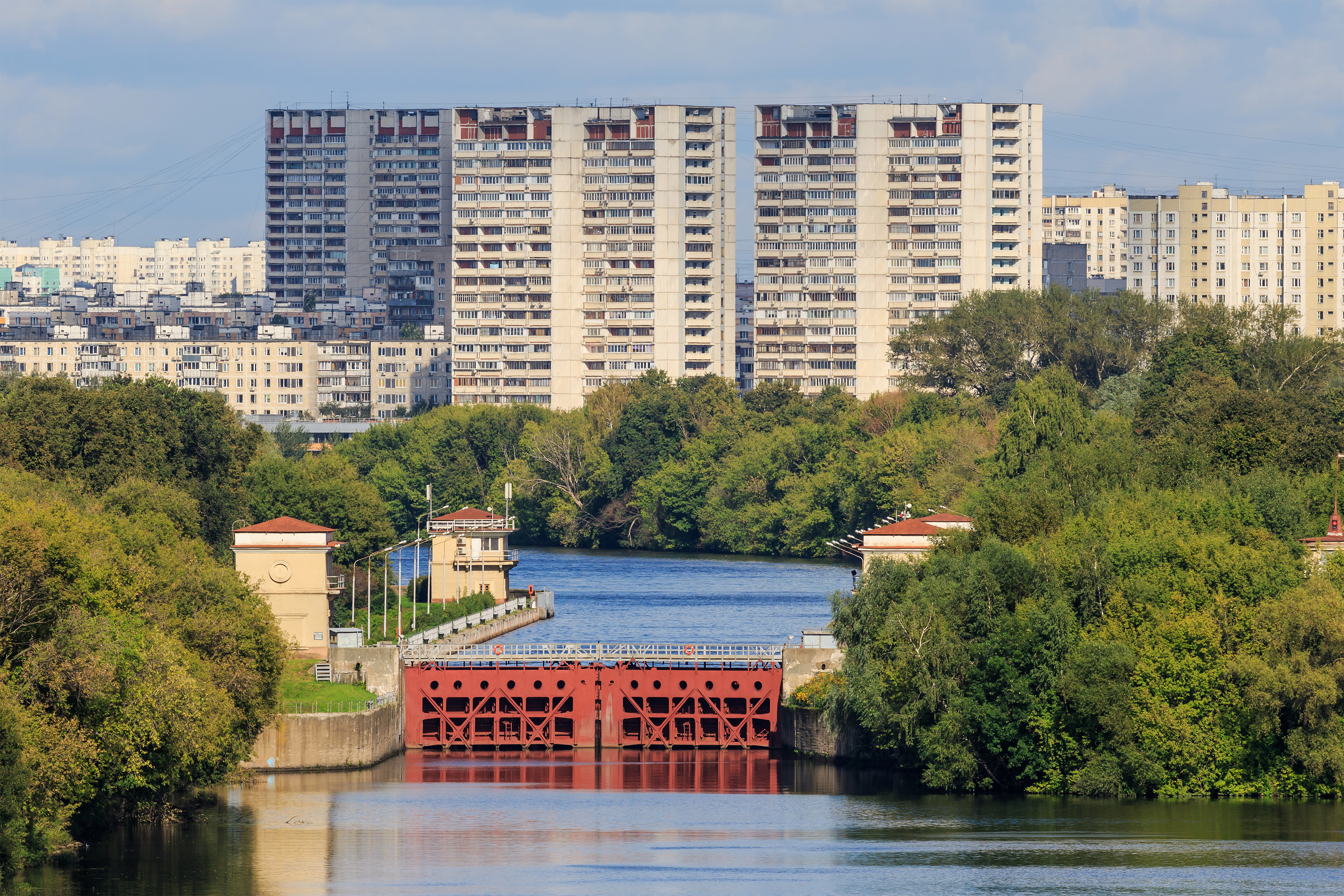 Remote view of the canal locks in Nagatinsky Zaton at the Moskva River straightening. In the background: buildings at Guryanova Street, Pechatniki District. Moscow, Russia.